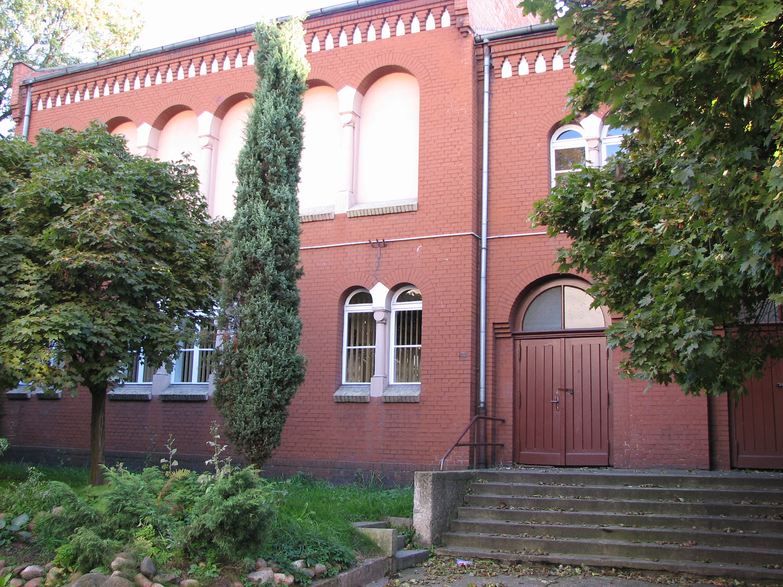 Synagogue in Bierutów